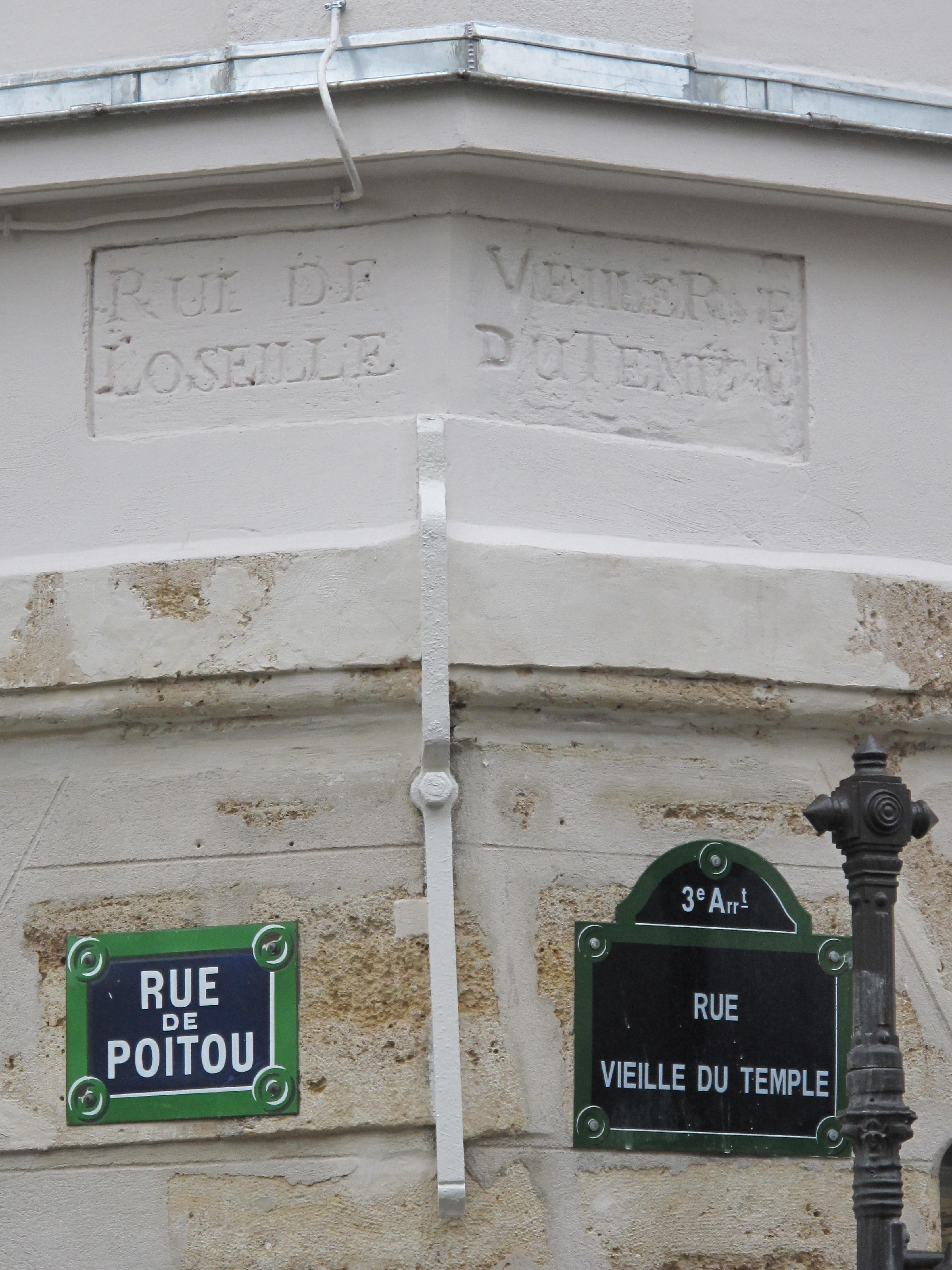 Streets names at the corner of the rue de Poitou (formerly rue de l'oseille) and of the rue Vieille-du-Temple (formerly Vieille rue du Temple), Paris 3rd arr.